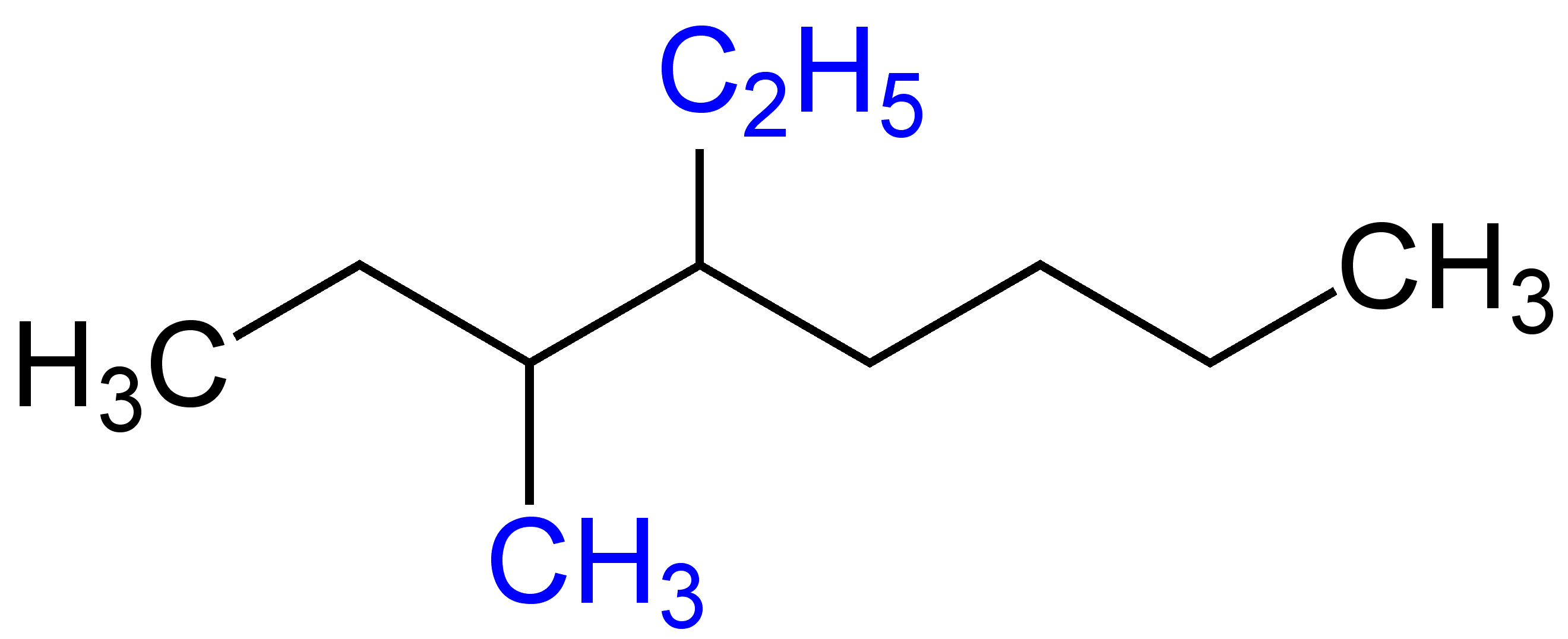 Alkane side chains